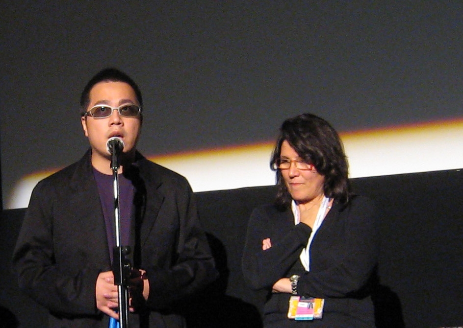 Director Pang Ho-cheung addresses the crowd at the 2007 Toronto International Film Festival screening of his film, The Exodus.